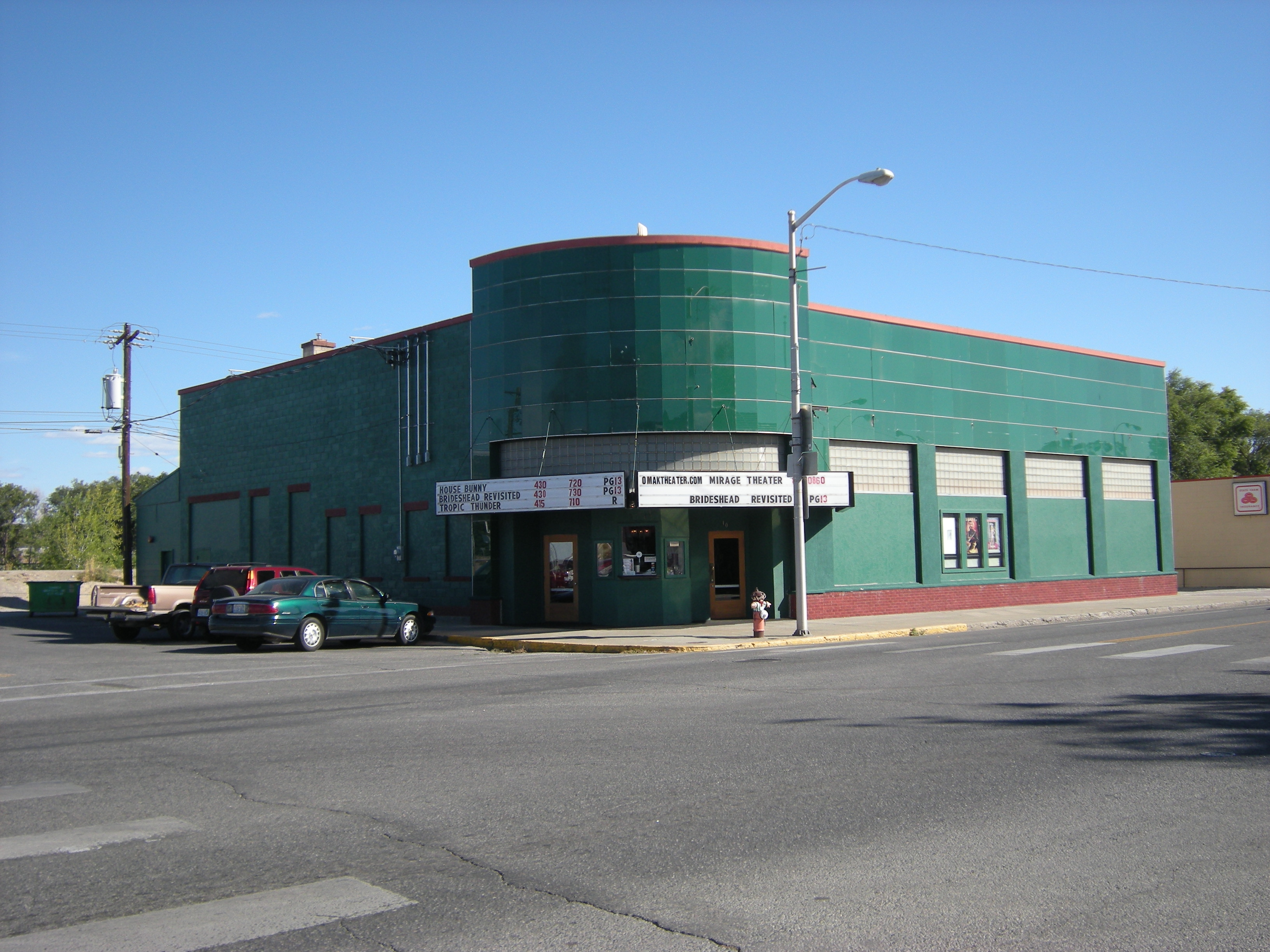 Mirage Theatre, Omak, Washington.